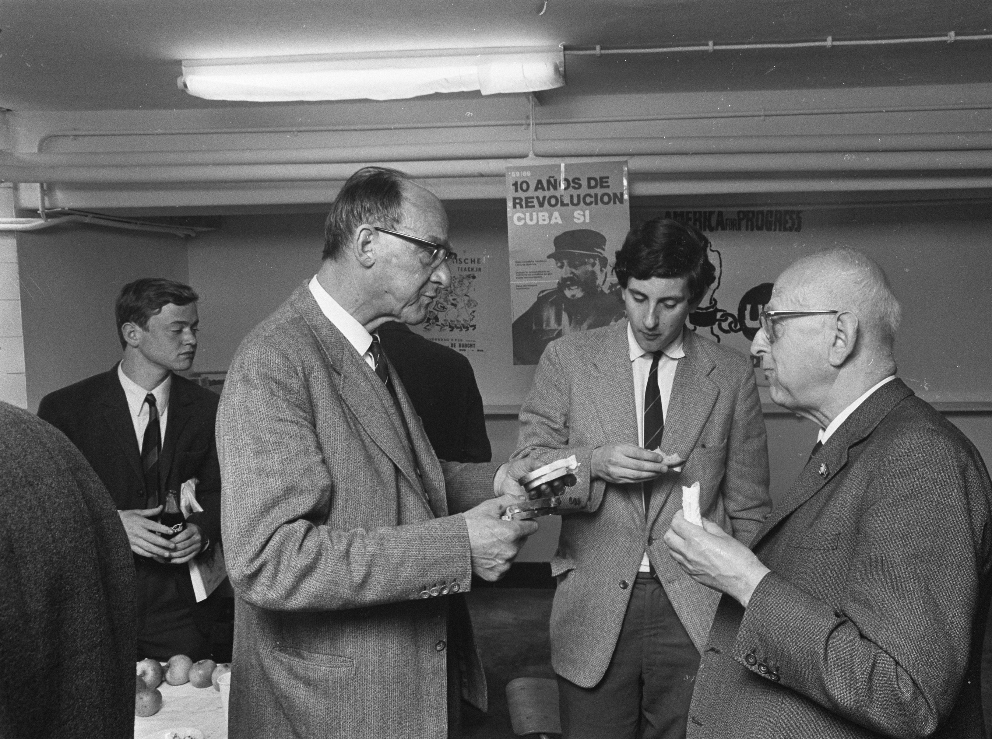 Left to right: student, Rector Johan Goslings, student (?), Piet Muntendam. 12 May 1969, Academiegebouw, Leiden University, The Netherlands. Poster 10 anos de revolucion, Cuba si (Fidel Castro)